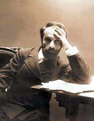 Isaac Ilyich Levitan, a Russian landscape painter (1861—1900)